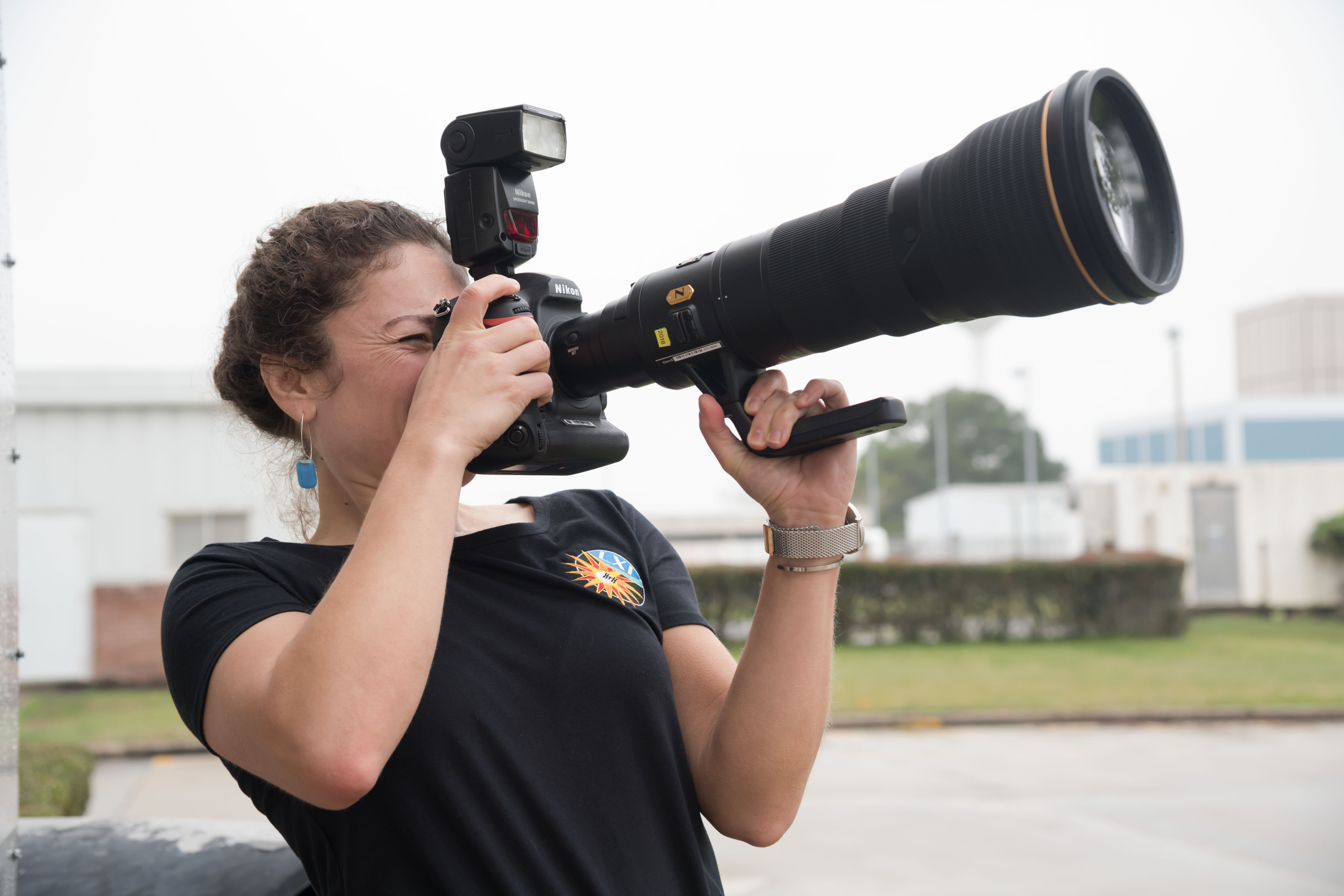 Astronaut Jessica Meir trains in photography to prepare for the cameras she will use on the International Space Station.